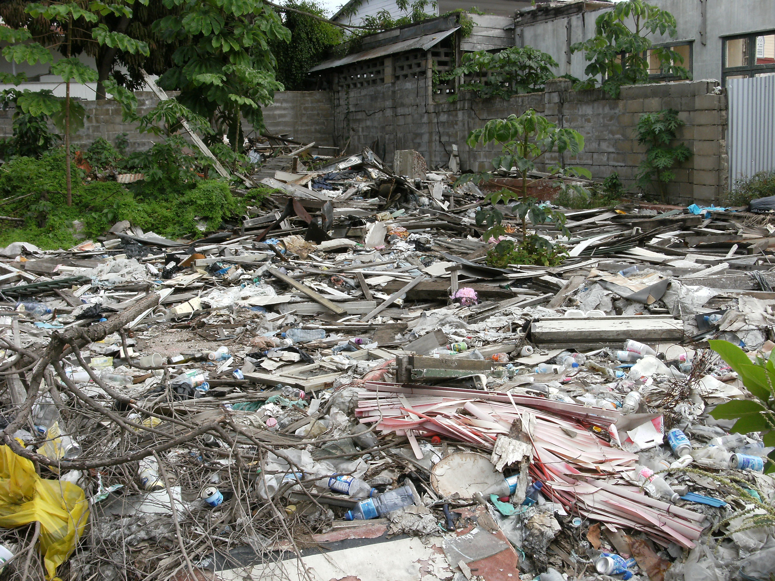 Trash & rubble in a vacant lot in Paramaribo.